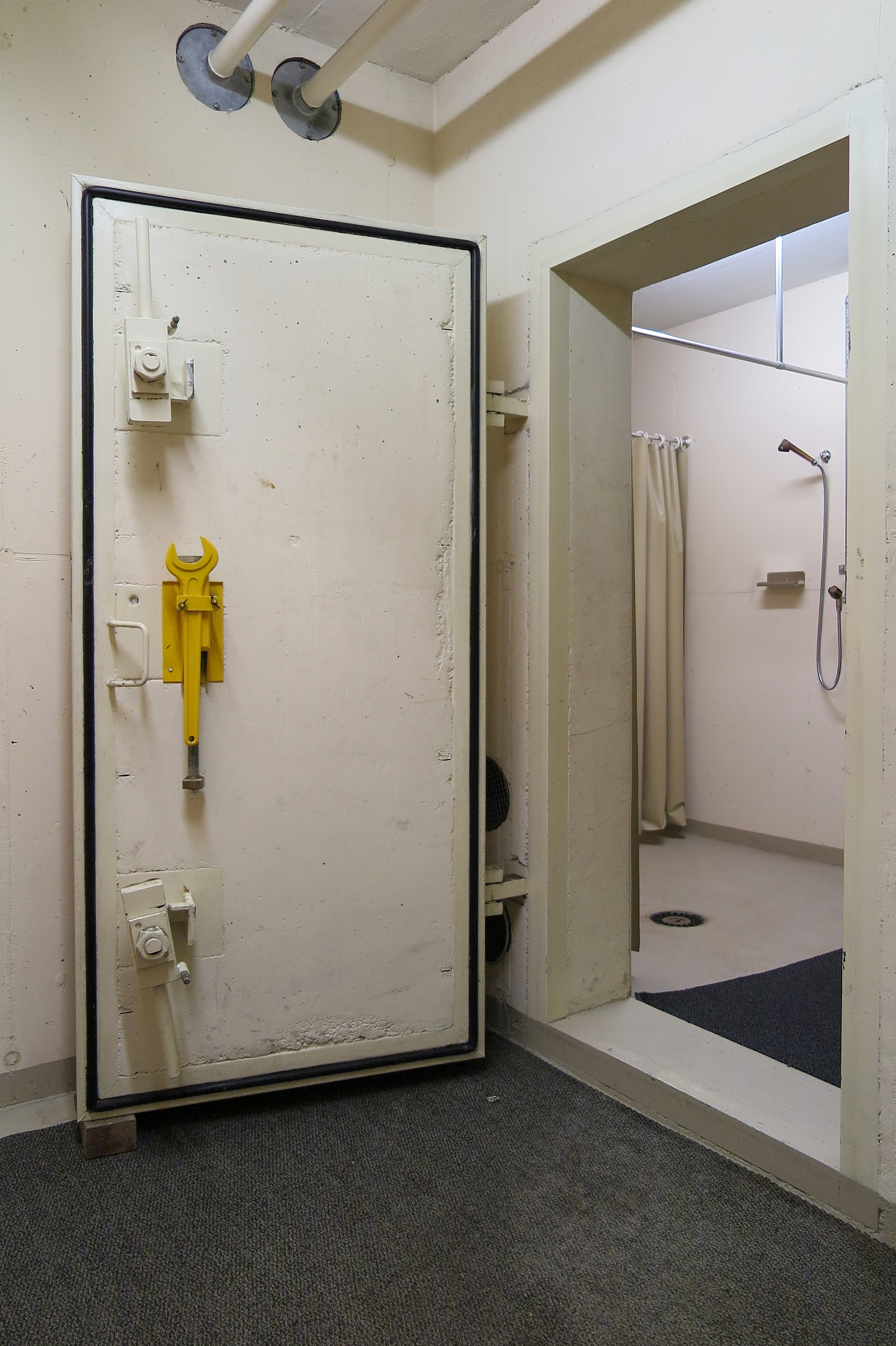 Passage from the sluice chamber to the cleaning. Berneck, Switzerland, Nov 19, 2014. (3/43)